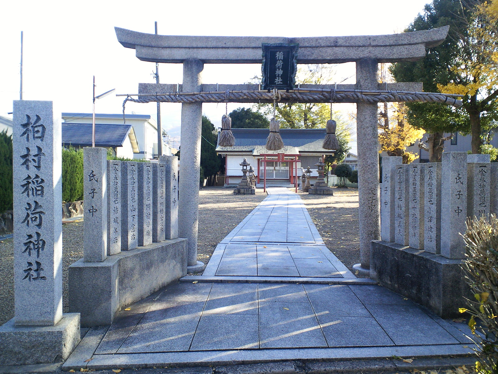 Kashimura Inari Shrine, Yao, Osaka, Japan